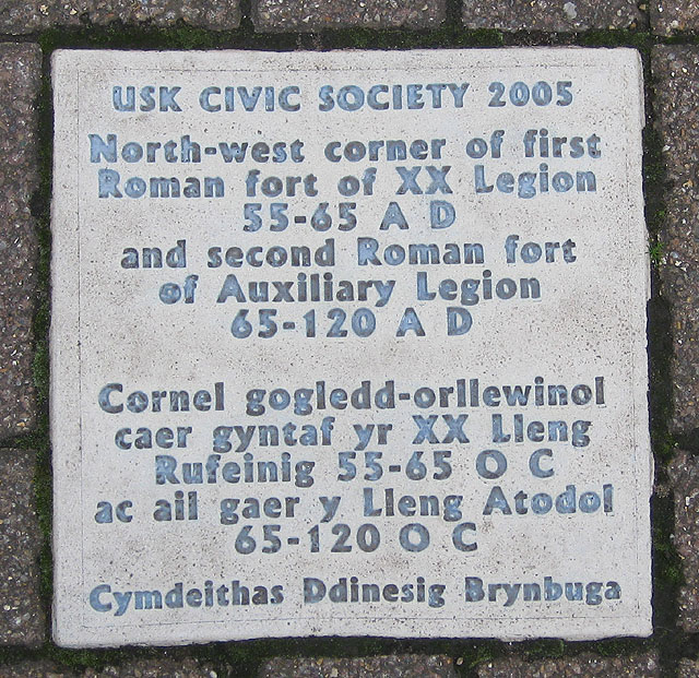 Informative tile, Usk One of several set into the pavements at historic spots around the town.